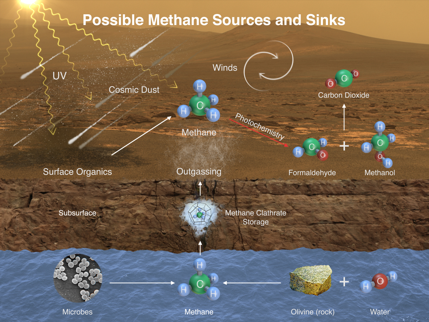 December 16, 2014 This illustration portrays possible ways that methane might be added to Mars' atmosphere (sources) and removed from the atmosphere (sinks). NASA's Curiosity Mars rover has detected fluctuations in methane concentration in the atmosphere, implying both types of activity occur in the modern environment of Mars. A molecule of methane consists of one atom of carbon and four atoms of hydrogen. Methane can be generated by microbes and can also be generated by processes that do not require life, such as reactions between water and olivine (or pyroxene) rock. Ultraviolet radiation (UV) can induce reactions that generate methane from other organic chemicals produced by either biological or non-biological processes, such as comet dust falling on Mars. Methane generated underground in the distant or recent past might be stored within lattice-structured methane hydrates called clathrates, and released by the clathrates at a later time, so that methane being released to the atmosphere today might have formed in the past. Winds on Mars can quickly distribute methane coming from any individual source, reducing localized concentration of methane. Methane can be removed from the atmosphere by sunlight-induced reactions (photochemistry). These reactions can oxidize the methane, through intermediary chemicals such as formaldehyde and methanol, into carbon dioxide, the predominant ingredient in Mars' atmosphere.